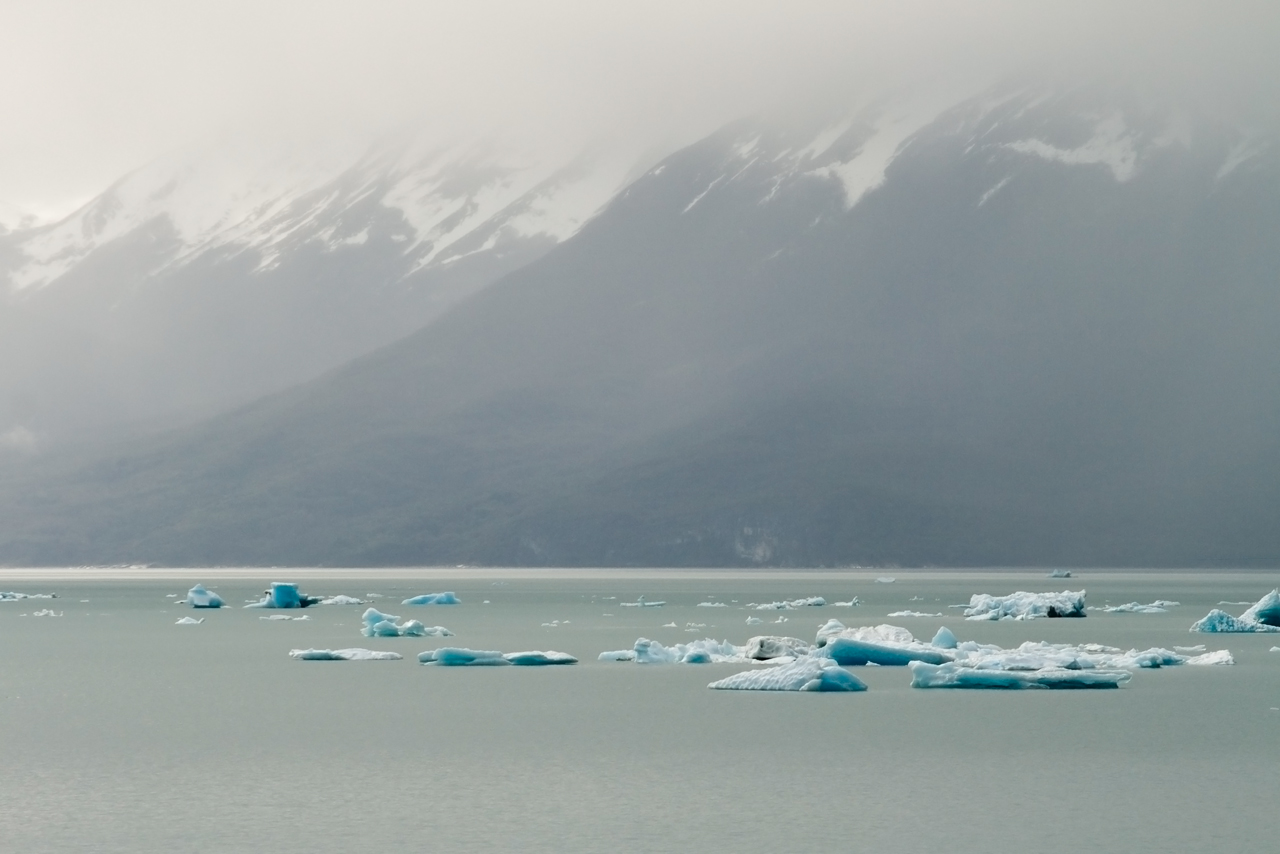 Ice floating about in Argentino Lake